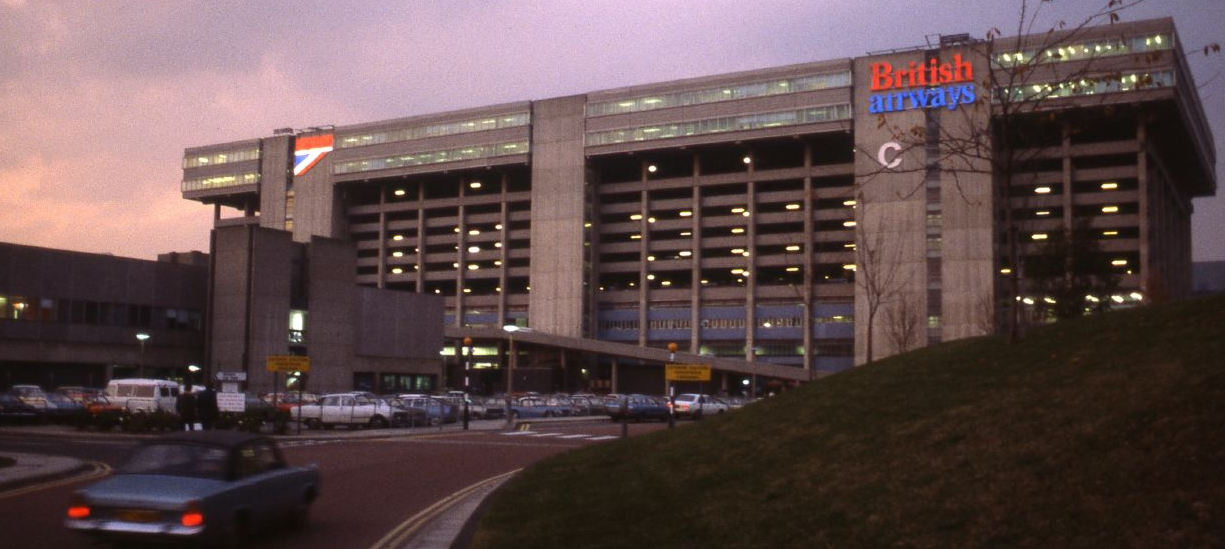 British Airways offices at London Heathrow Airport in the 1980s